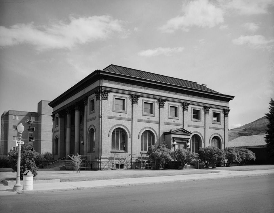 Streetside view of the Hearst Free Library, located at the intersection of Main and Fourth Streets in Anaconda, Montana, United States. Built in 1898, the library is listed on the National Register of Historic Places.